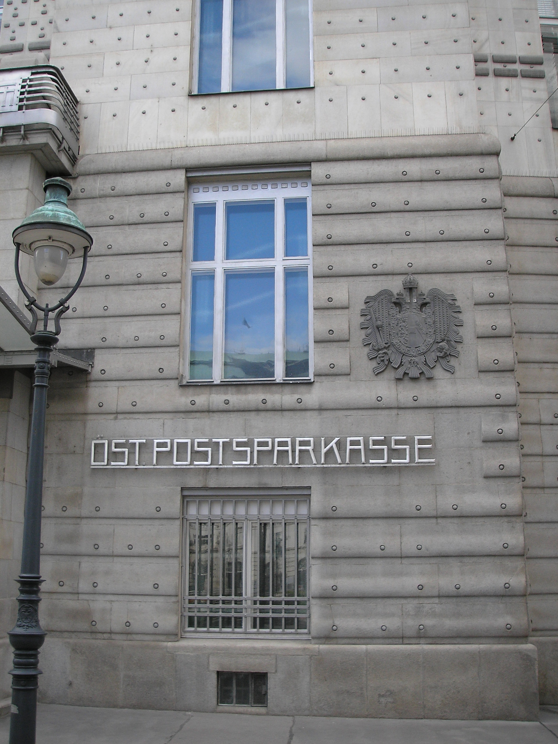 Österreichische Postsparkasse (P.S.K.), constructed by Otto Wagner.